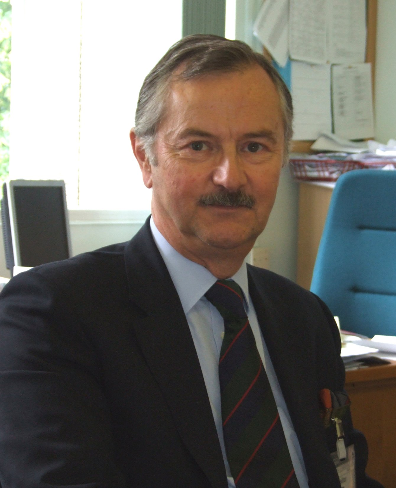 Photograph taken by me at a conference in July 2007